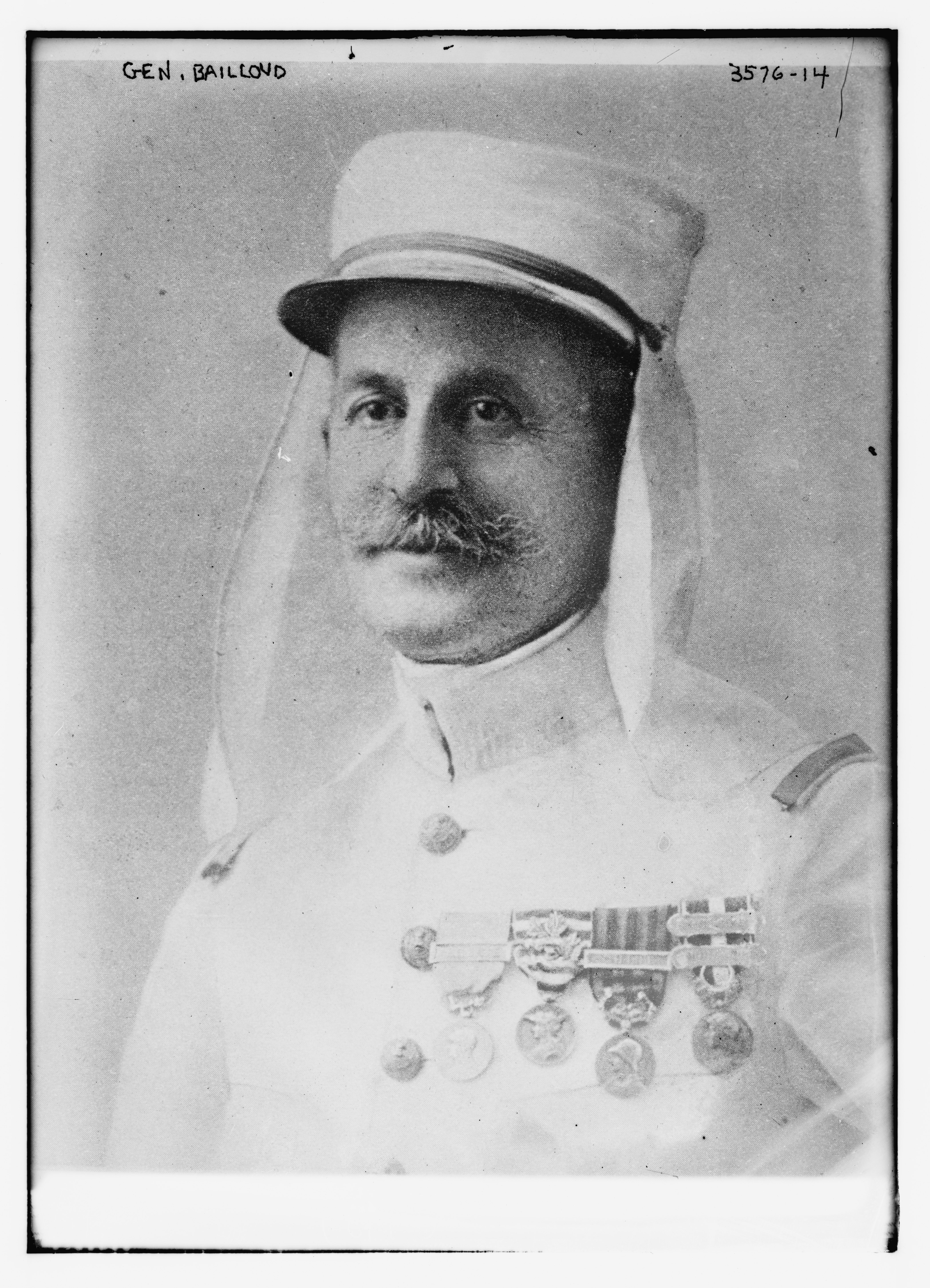 Title: Gen. Bailloud Abstract/medium: 1 negative : glass ; 5 x 7 in. or smaller.